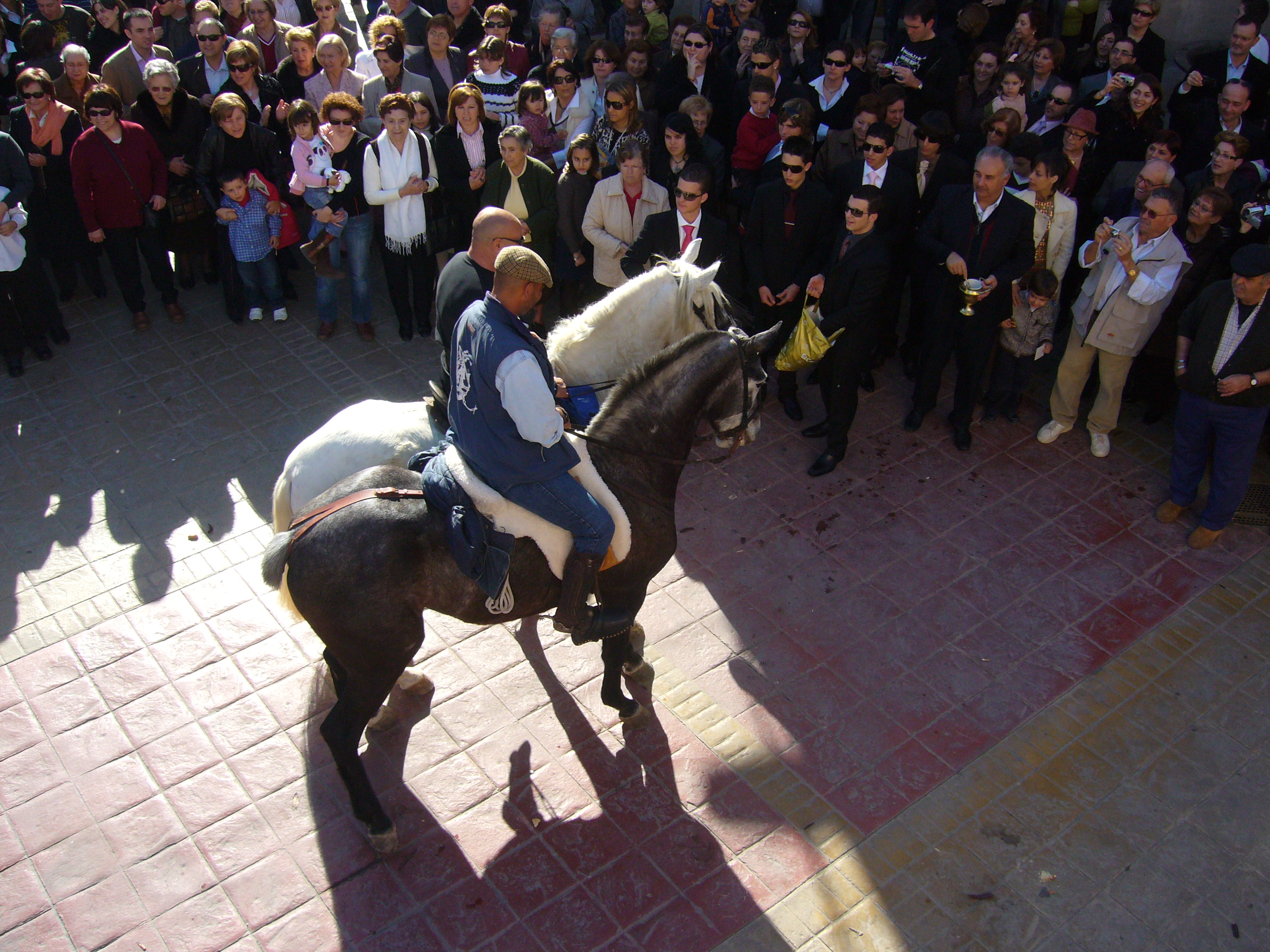 Benediction